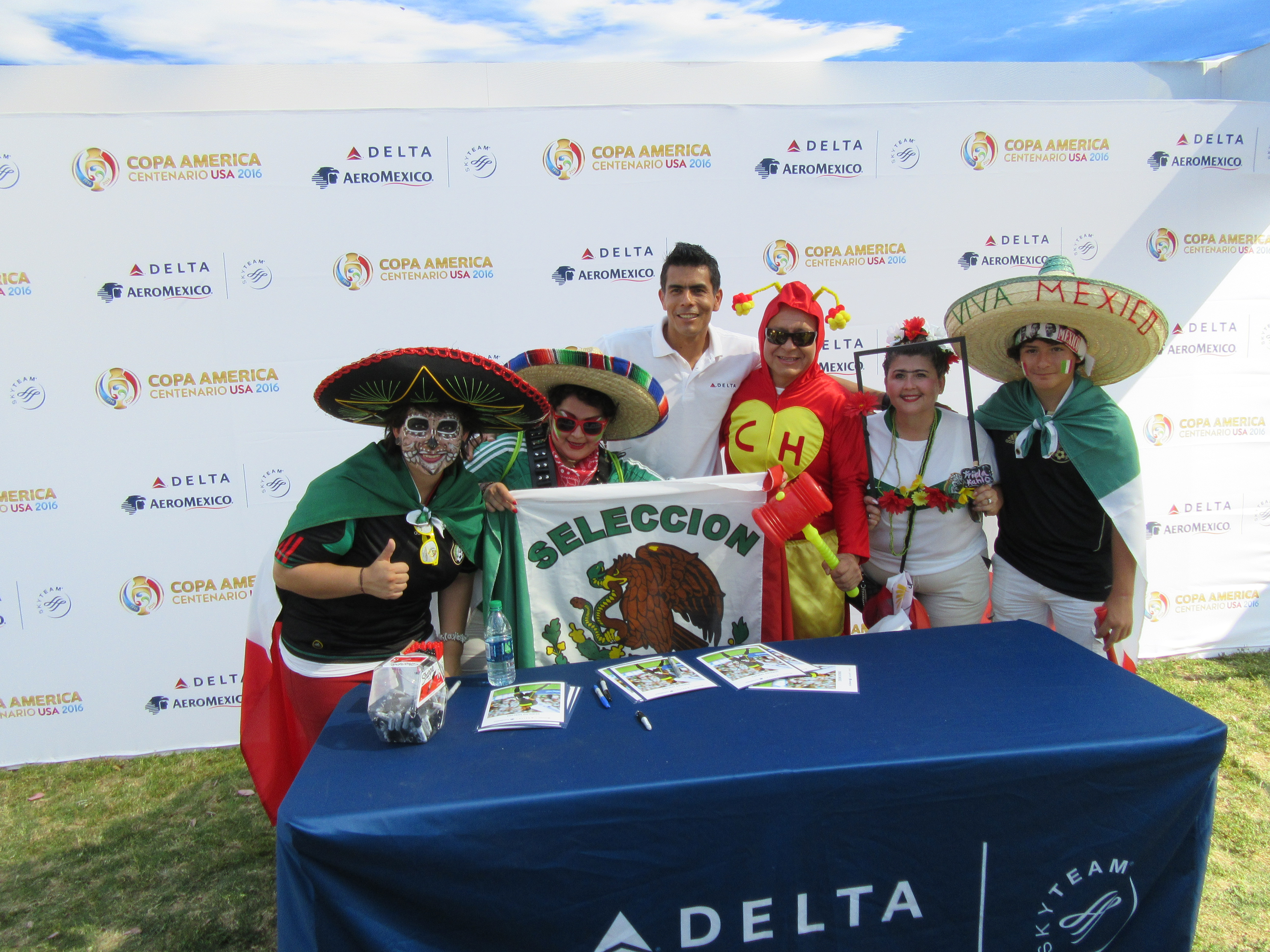 Oswaldo Sanchez made an appearance at the Delta Aeromexico footprint at Fan Plaza for the Mexico vs Jamaica on June 9 Copa#100 Eliana Ortega|Account Director 5909 Peachtree Dunwoody Rd Suite 600 |Atlanta, GA 30328| USA t 678.587.4974 |m 404.798.1655 | This message and any attached documents contain information from the sender that may be confidential and/or privileged. If you are not the intended recipient please notify the sender immediately by reply e-mail and then delete this message. Thank you. (A) This message contains information which may be confidential and privileged. Unless you are the intended recipient (or authorized to receive this message for the intended recipient), you may not use, copy, disseminate or disclose to anyone the message or any information contained in the message. If you have received the message in error, please advise the sender by reply e-mail, and delete the message. Thank you very much.